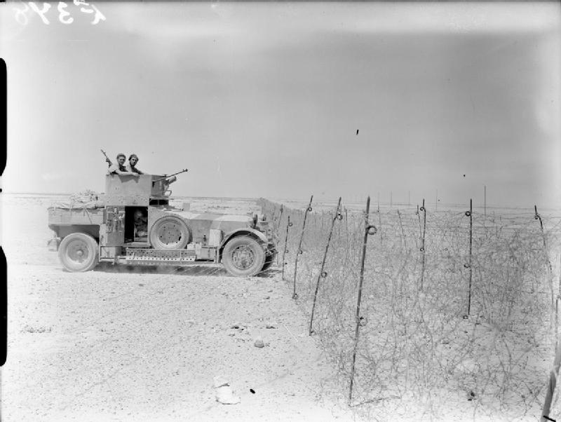 The British Army in North Africa 1940 A Rolls Royce armoured car passing through Italian barbed wire on the Egyptian-Libyan frontier, 26 July 1940.